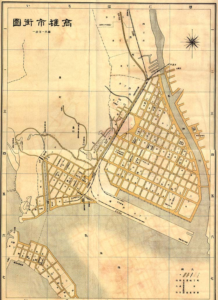 Japanese Map of Takao in Taiwan, 1935.